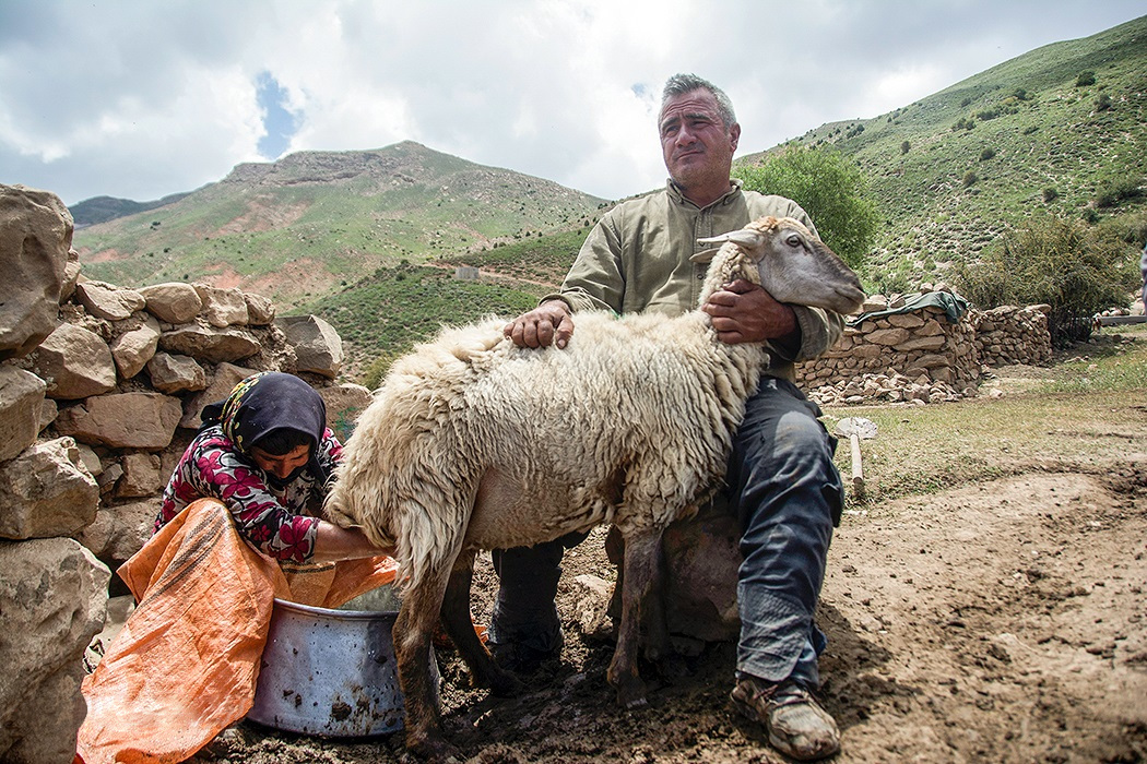 Kurmanji woman milking a sheep, North Khorasan, Iran